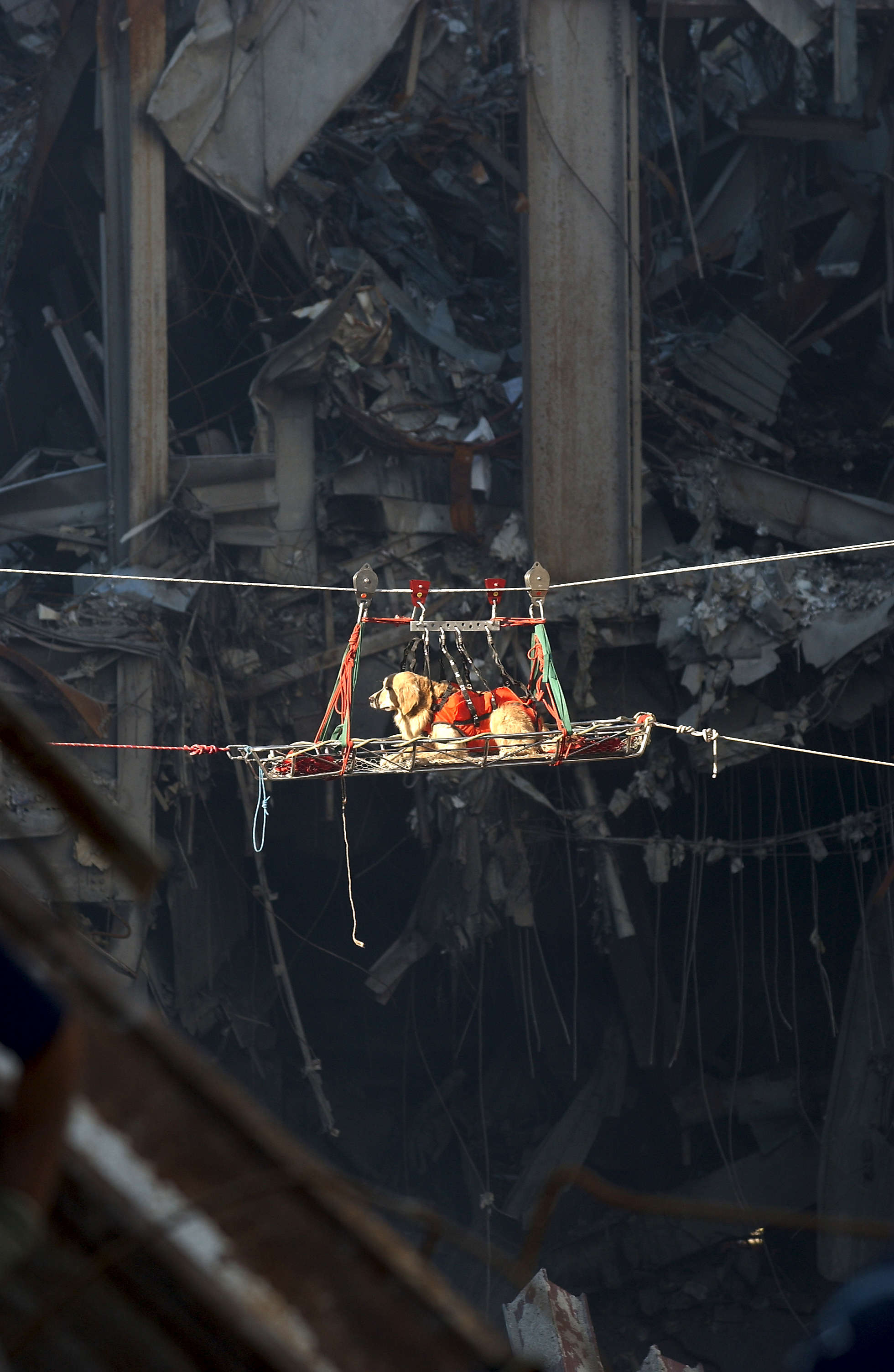 A rescue dog is transported out of the debris of the World Trade Center. The twin towers of the center were destroyed in a Sept. 11 terrorist attack.